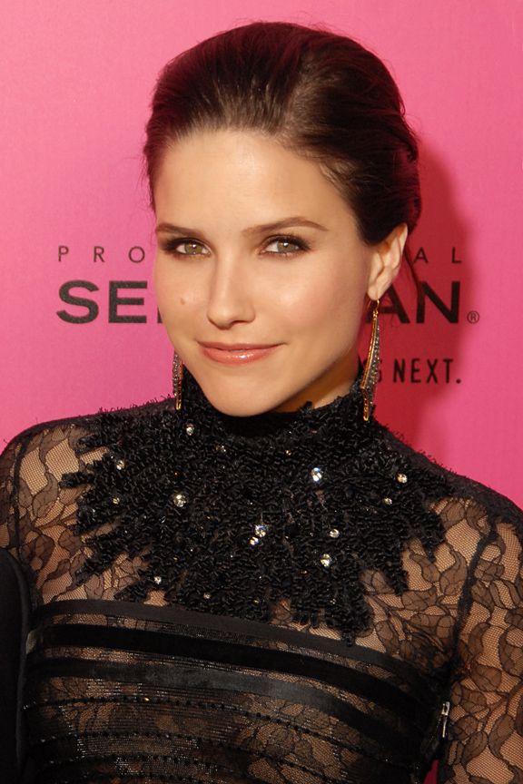 Sophia Bush attending "The 6th Annual Hollywood Style Awards" Beverly Hills, CA on Oct. 10, 2009 - Photo by Glenn Francis of